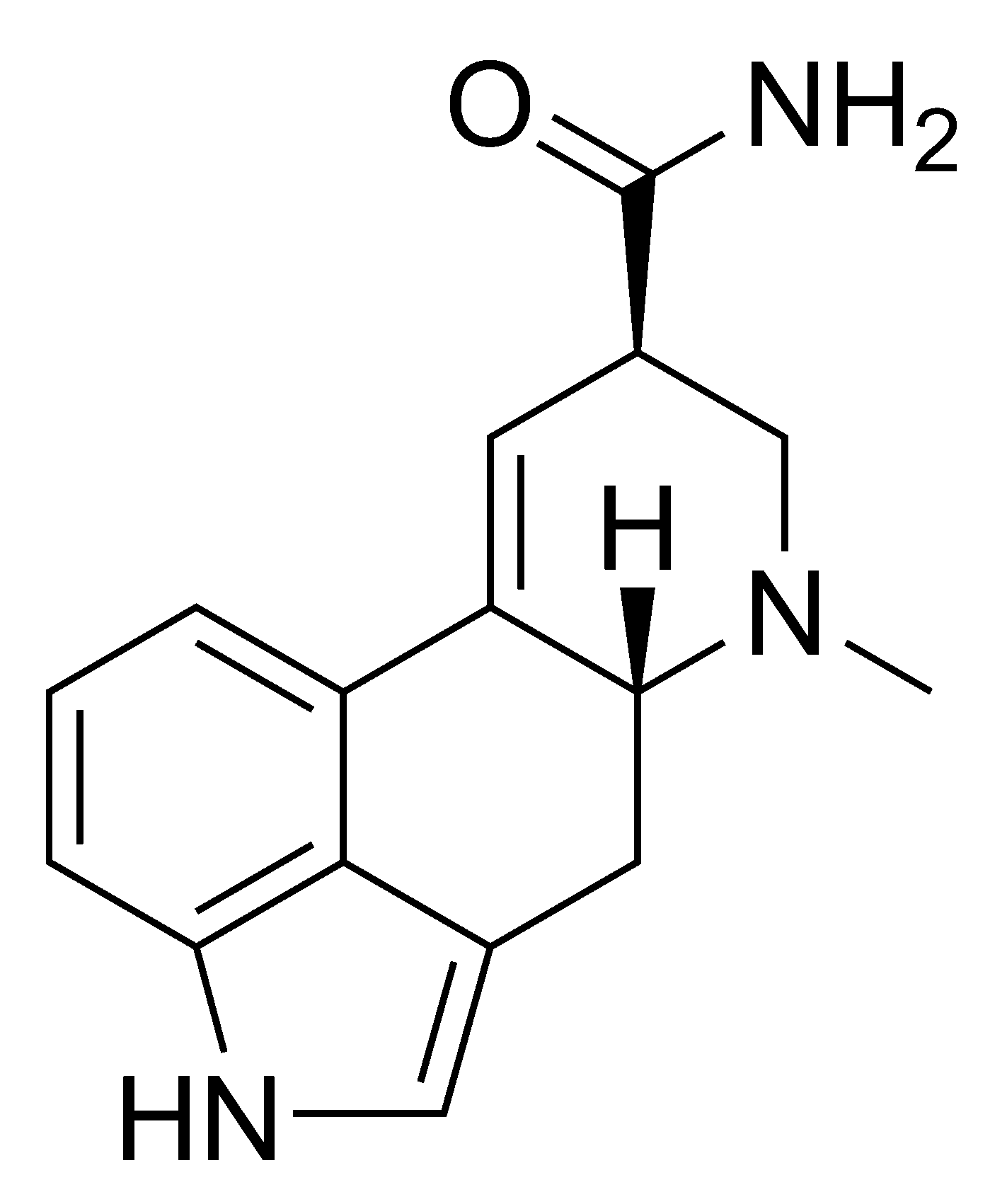 Chemical structure of ergine (LSA)